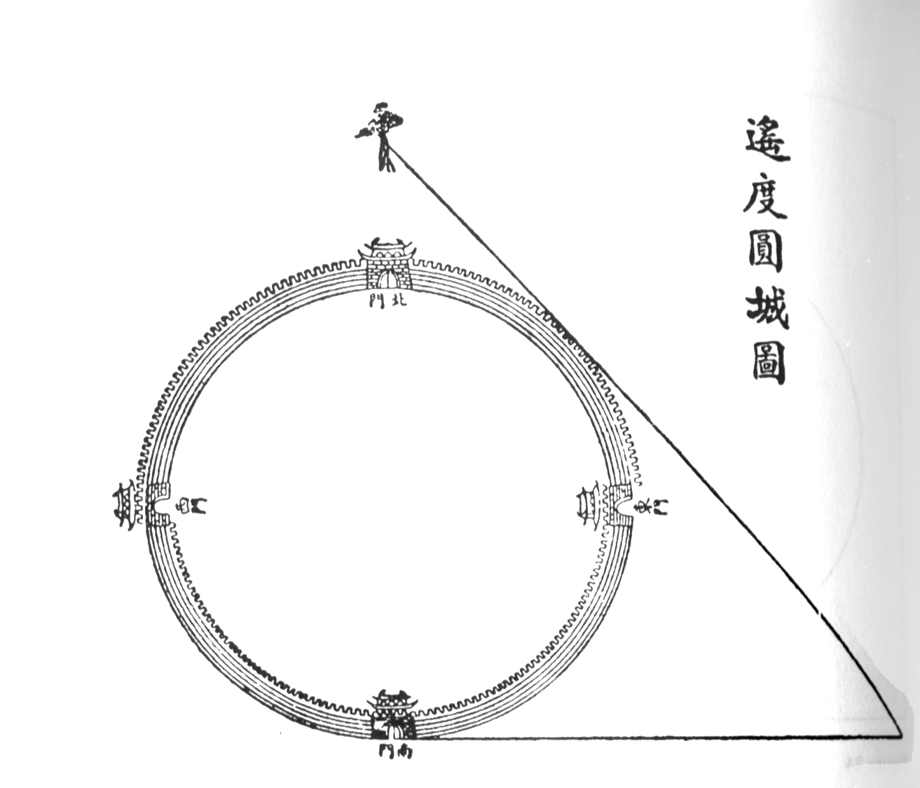 Measuring a round town from a distance. 宜稼堂 《数书九章》遥度圆城